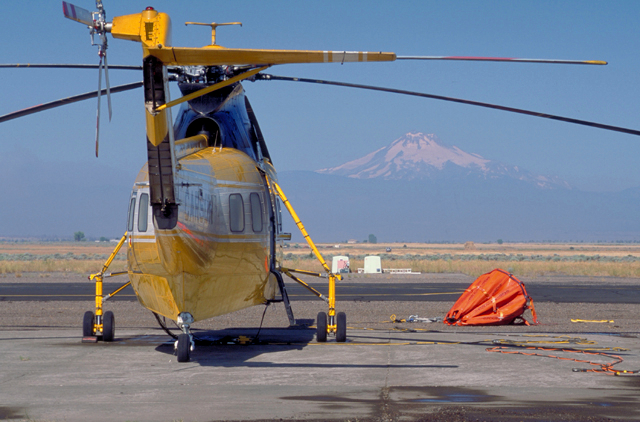 Mount Jefferson can be seen between this Sikorsky S61 helicopter and its bambi bucket (a bambi bucket is a collapsible bucket slung below a helicopter). The airport in Madras, Oregon served as the helibase for the Eyerly Fire on the Deschutes National Forest. A helibase is the main location within the general incident area for parking, fueling, maintaining, and loading helicopters. The helibase is usually located near the incident base.